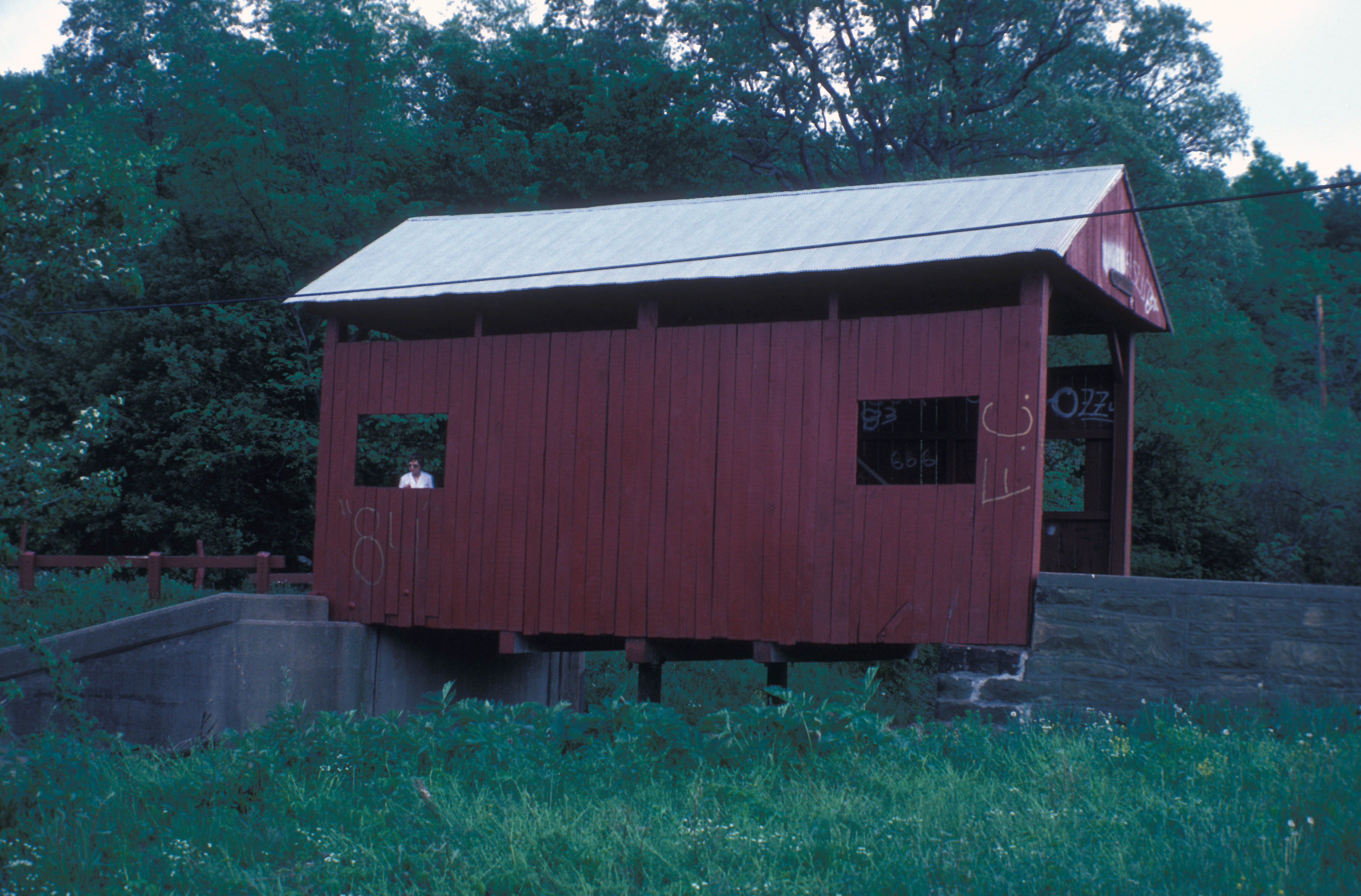 KREPPS CB OVER RACOON CREEK; 30’ KING